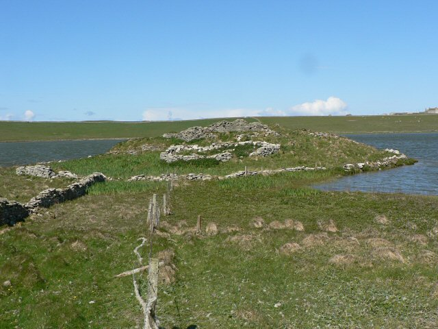 St Tredwell's Chapel. The remains of the chapel are on a small artificial peninsula in the Loch of St Tredwell's. The chapel is believed to be built on an Iron Age site.